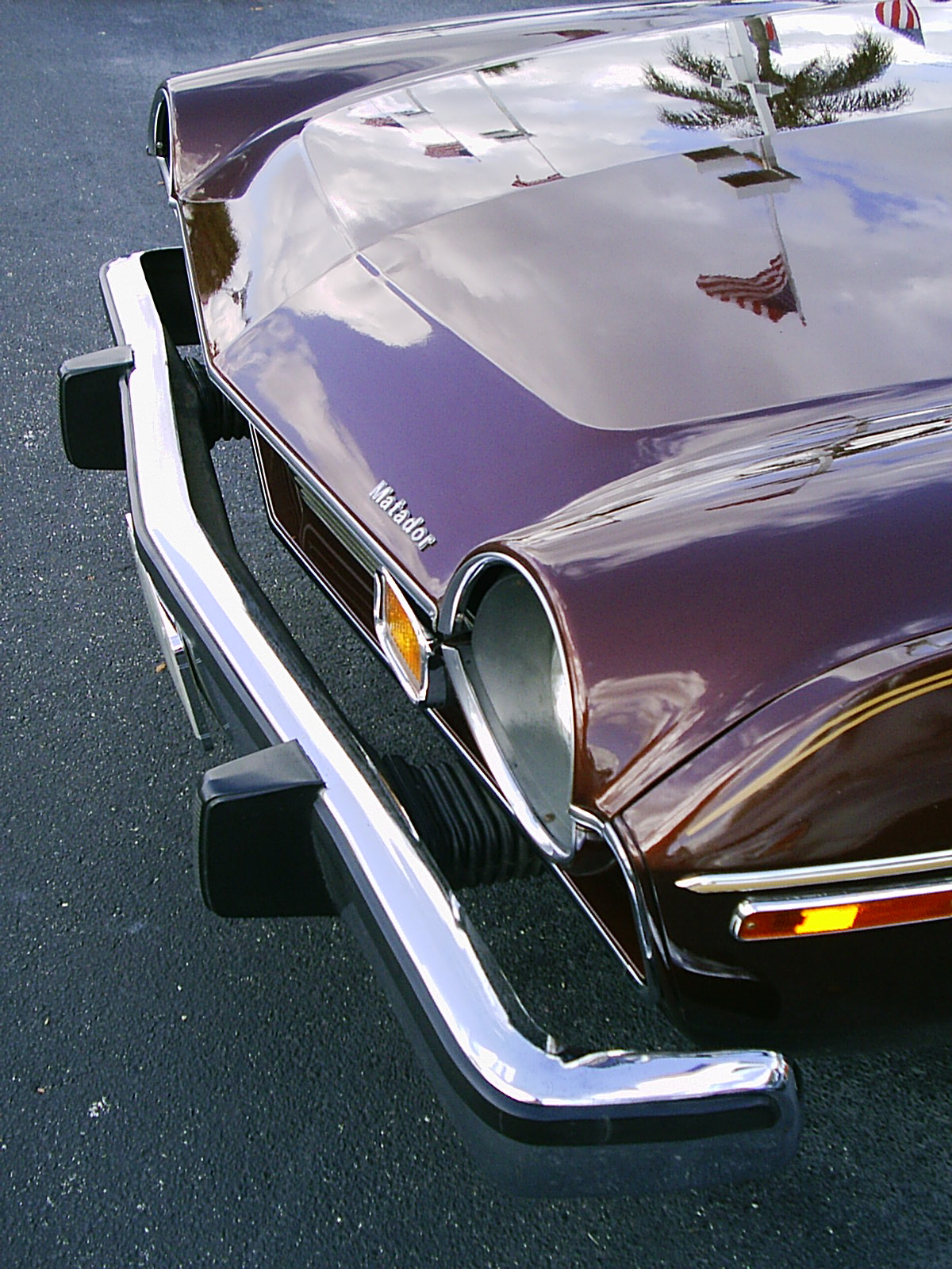 1976 AMC Matador Coupe - Brougham edition finished in Dark Cocoa Metallic (paint code: H4) with optional vinyl roof cover. Detail of energy absorbing front bumper designed to withstand the U.S. government standard for 5-mile-per-hour (8 km/h) impact without damage to the vehicle.